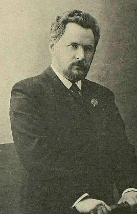 Andrey Byazigin